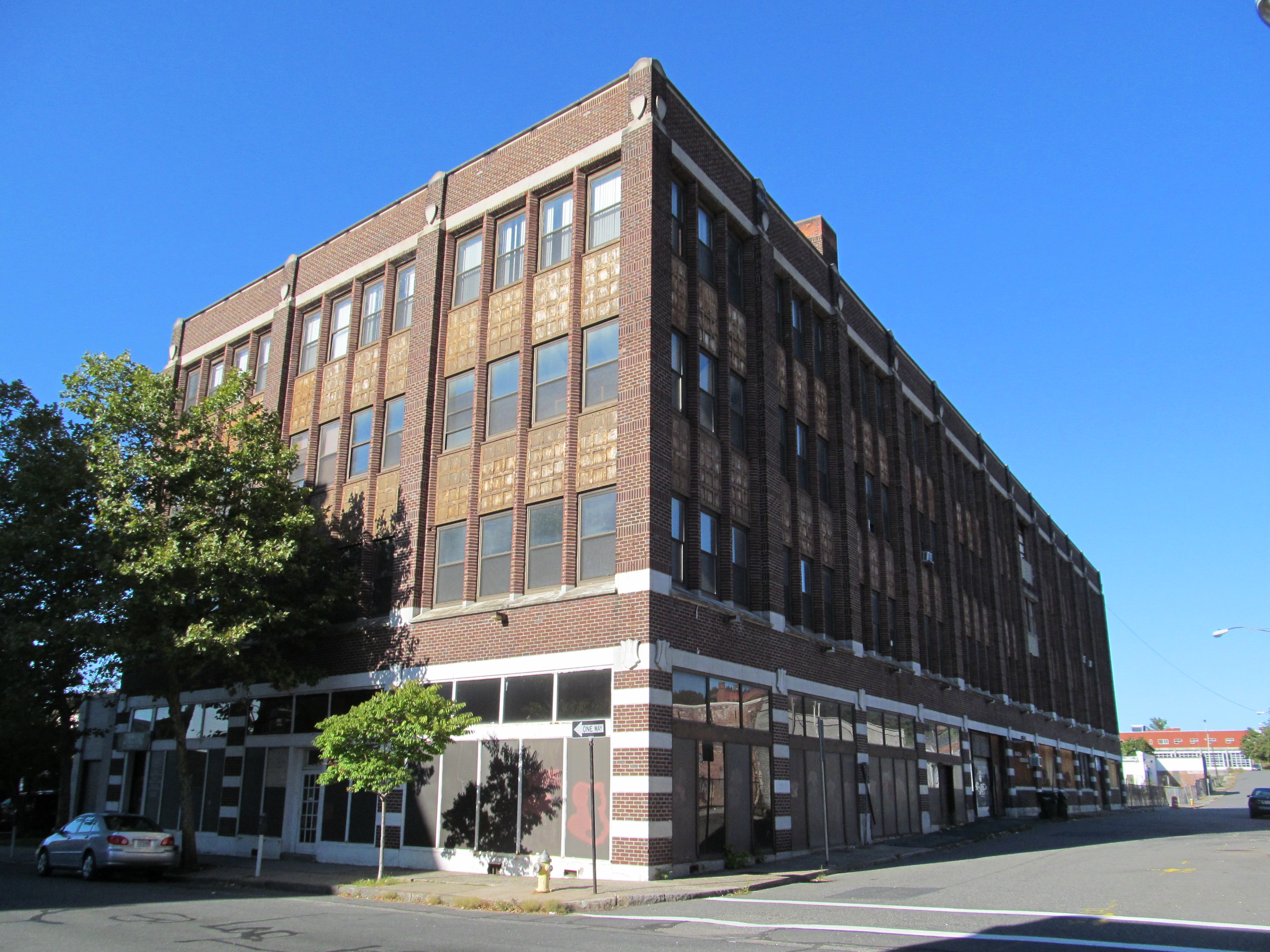 Willy's Overland Block, Springfield Massachusetts